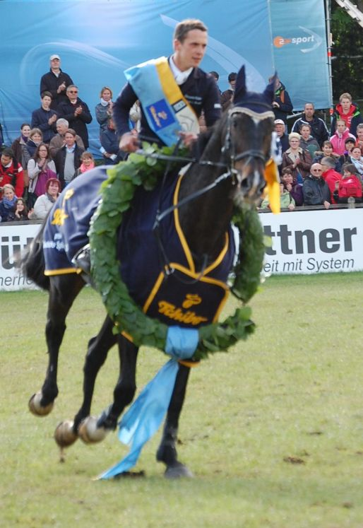 German rider Gilbert Tillmann with Hello Max at the German show jumping derby, Hamburg 2013